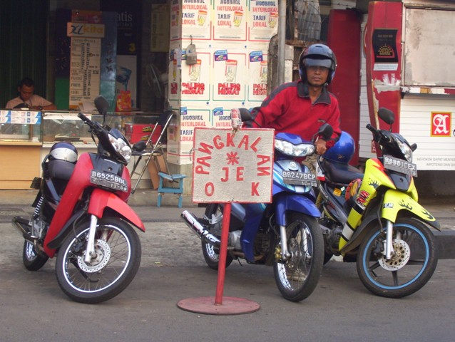 Ojeks (motorcycle taxis)